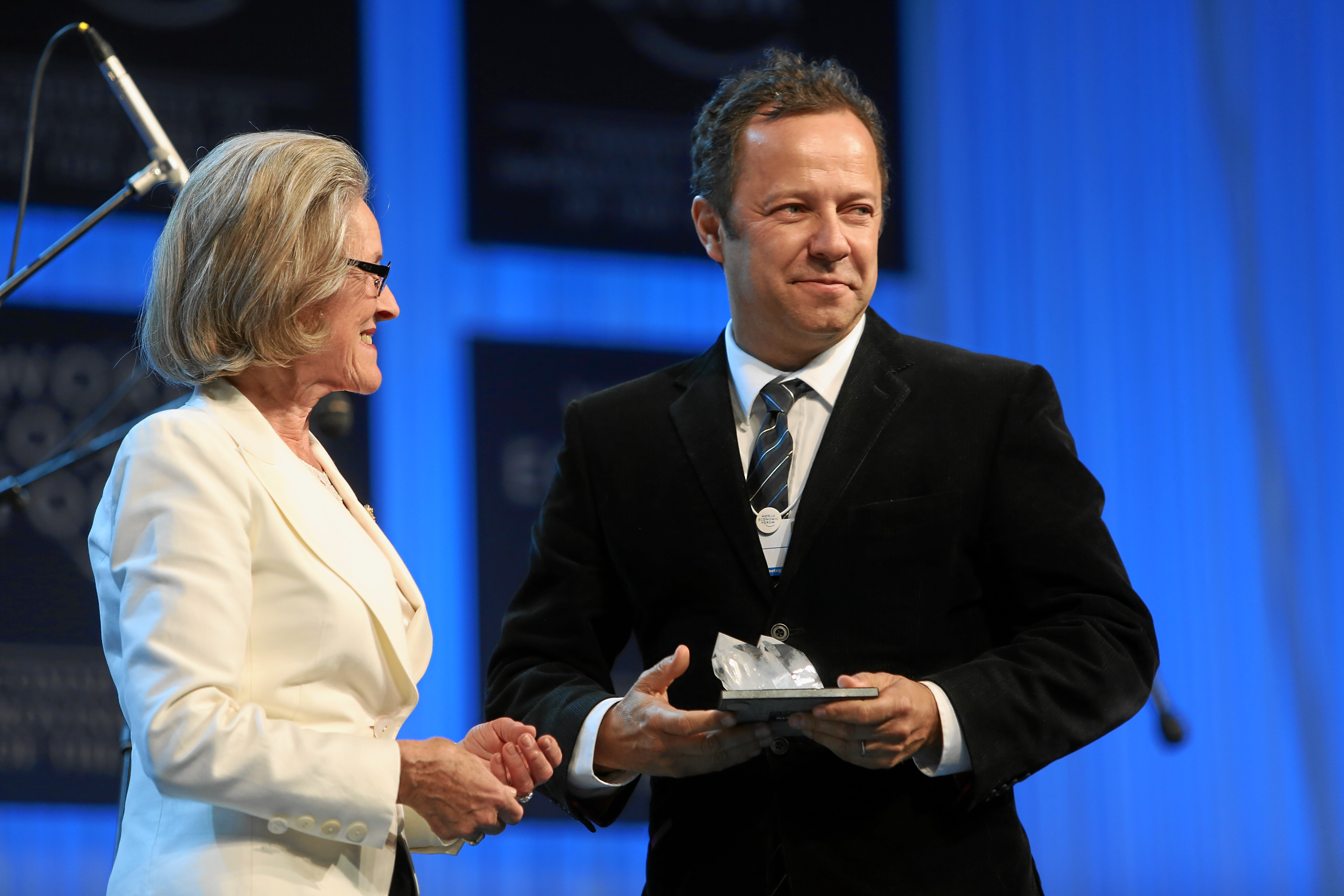 DAVOS/SWITZERLAND, 22JAN13 - Hilde Schwab and award winner Vik Muniz, Artist, during the Crystal Award Ceremony Exploring Arts in Society' at the Annual Meeting 2013 of the World Economic Forum in Davos, Switzerland, January 22, 2013. Copyright by World Economic Forum Monika Flueckiger